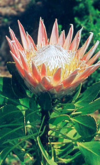 King Sugarbush (Protea cynaroides) - Kirstenbosch